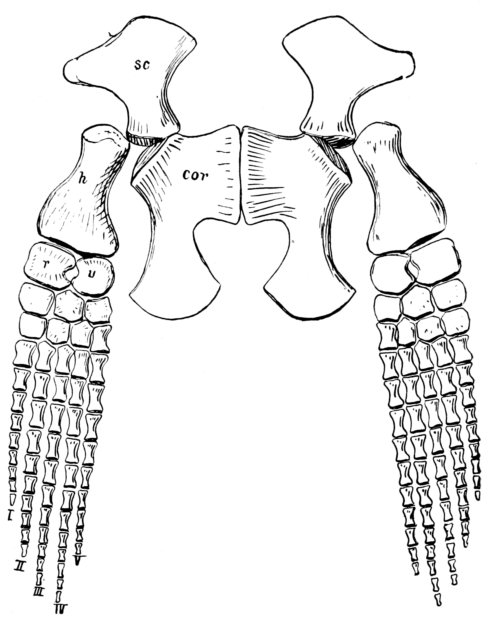 Illustration of a pectoral girdle (in part) and front paddles of a juvenile elasmosaurid originally assigned to Elasmosaurus serpentinus (now Styxosaurus), which may be unidentifiable to the genus level. From The Osteology of the Reptiles (1925)